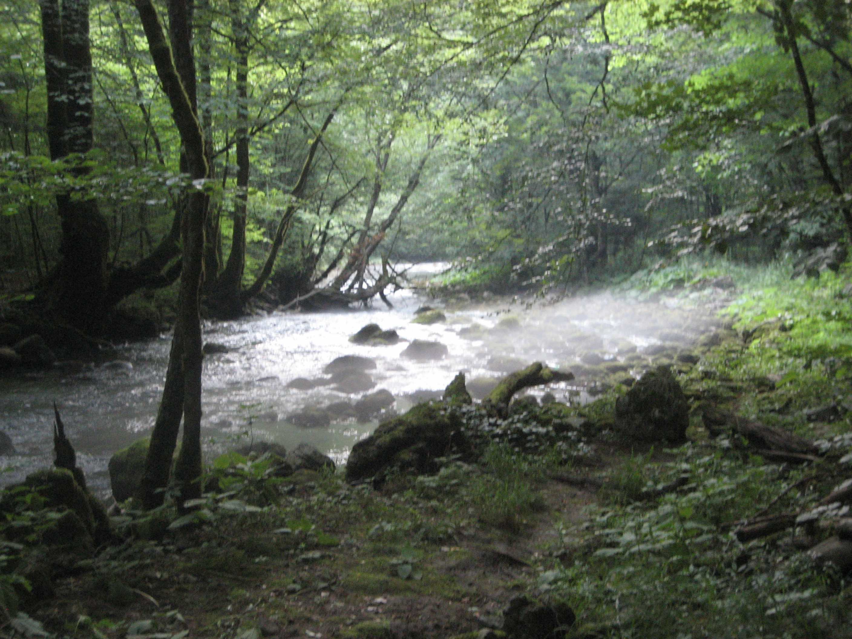 Zeleni Vir, Croatia